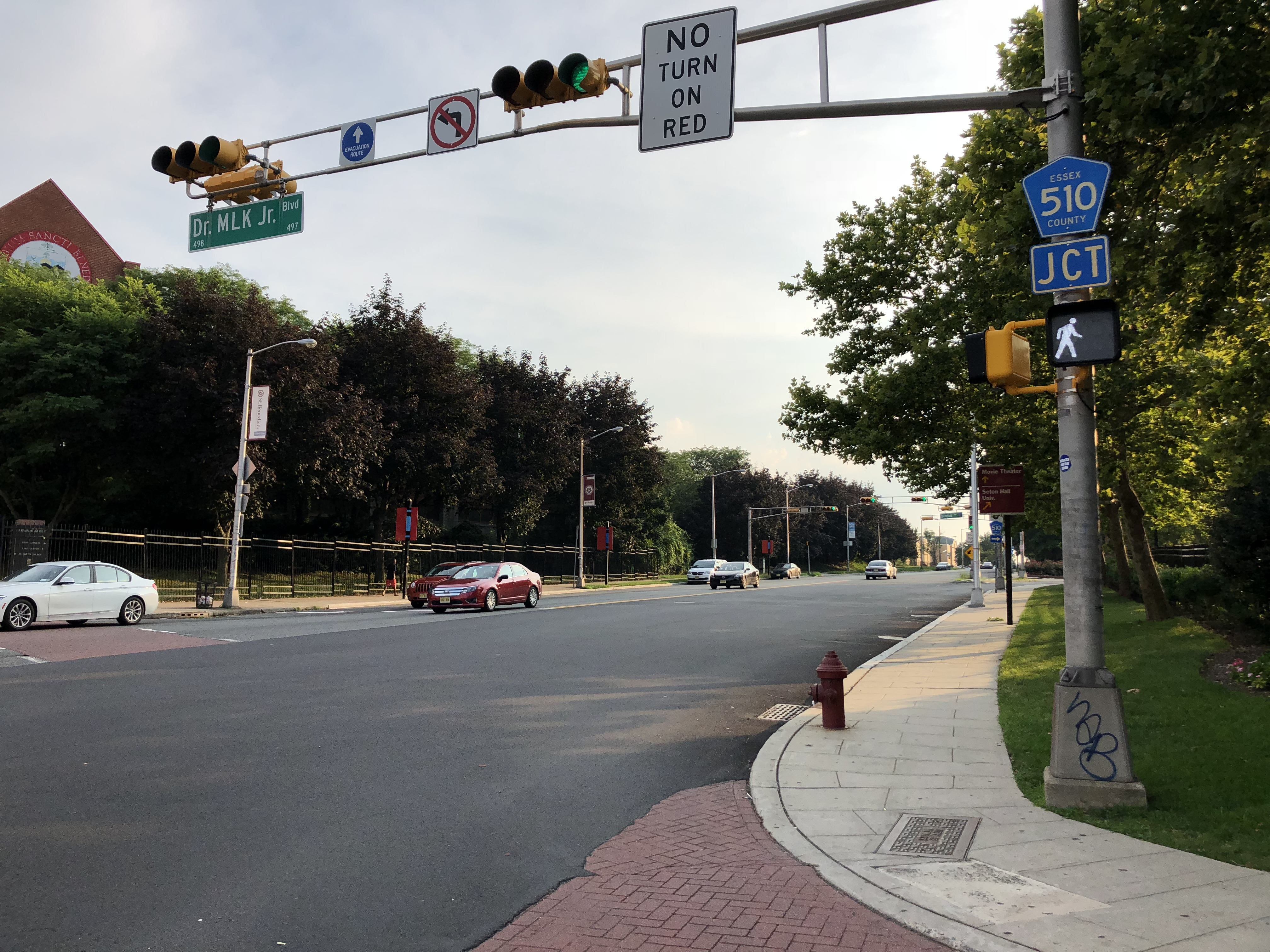 View west along Essex County Route 510 (Springfield Avenue) at Dr. Martin Luther King, Junior Boulevard in Newark, Essex County, New Jersey